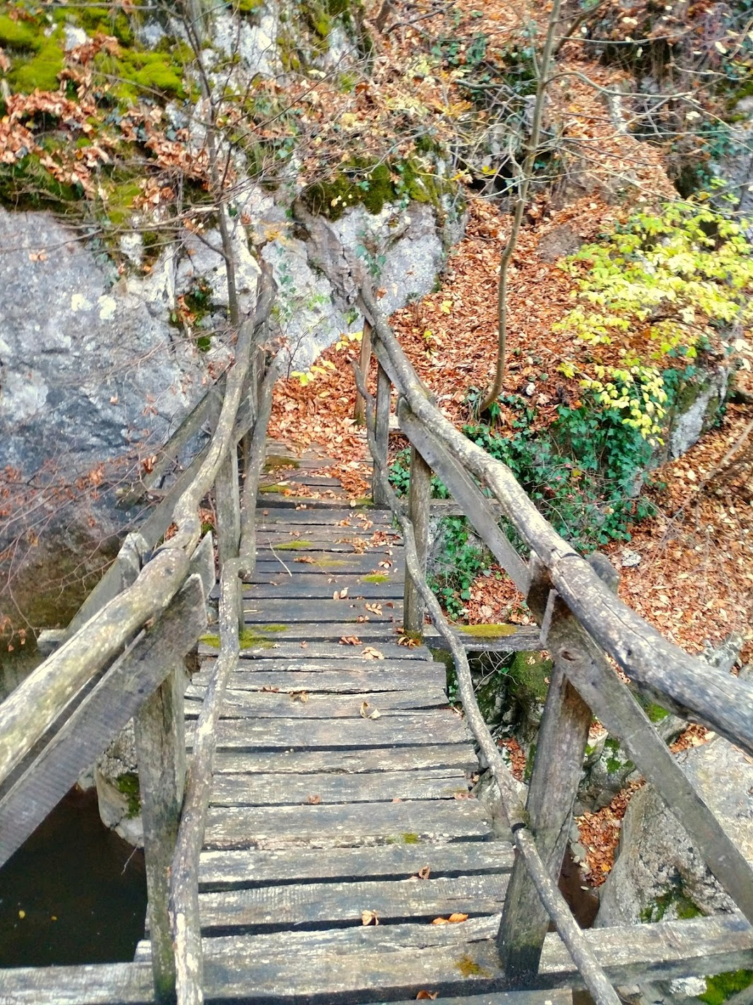 The last bridge